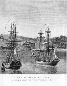 Géographe and the Naturaliste, from the drawing in Freycinet's Atlas of 1807.